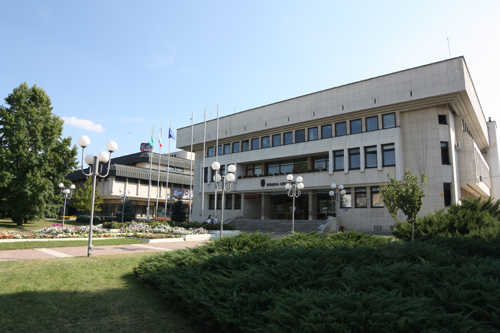 Sevlievo town hall